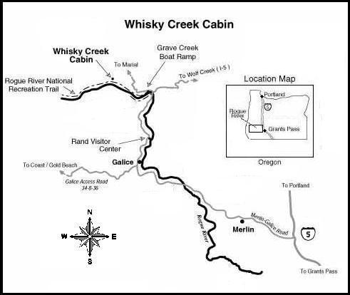 Whisky Creek Cabin Location Map; cabin is located on the north shore of the Rogue River at the mouth of Whisky Creek in Josephine County, Oregon